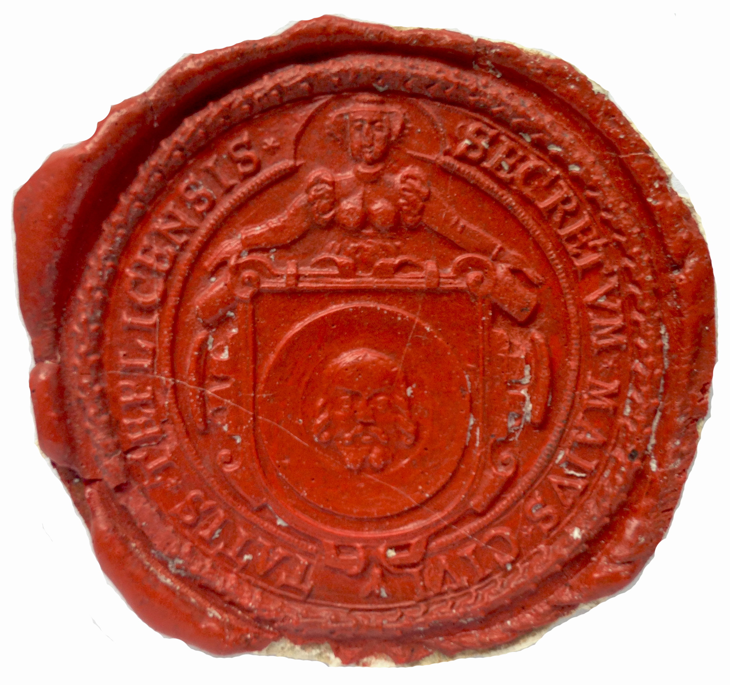 Teplice city Seal ~ 1750 with head of John the Baptist, the patron saint of the local Benedictine monastery